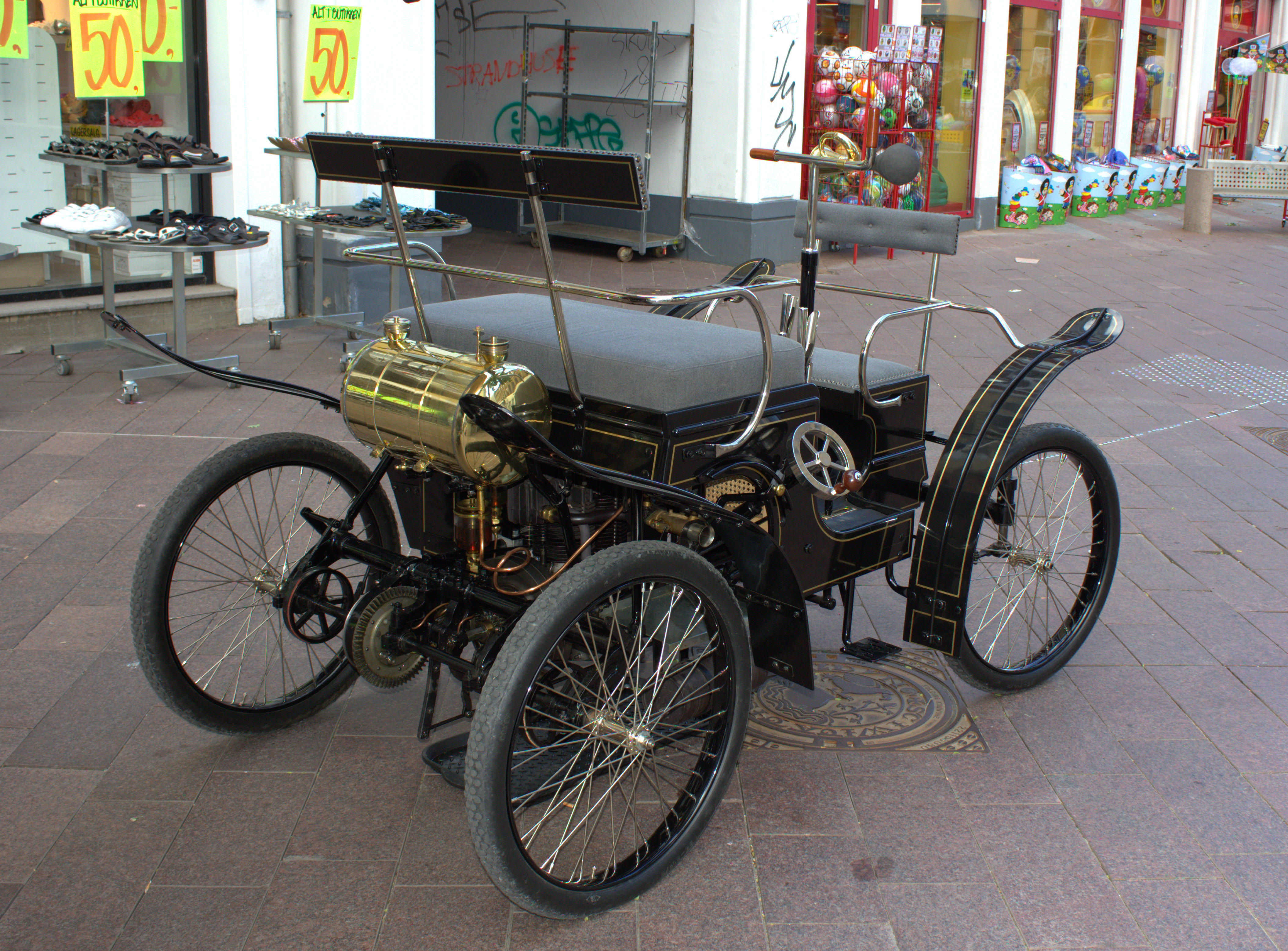 Brems No. 1 Type A the 1900. The car is manufactured by Julius Brems, who started the first carfactory in Viborg, Denmark. The car was first tested on 5th juni 1900th The car had two forward gears and a 2-cylinder engine. Top speed was approximately. 26 km / h and run around 225 km on a tank, and around. 21 km per liter of gasoline. Julius Brems produced 8 cars until the year the 1908. The picture shows a newly buildt copy and is here shown in the streets of Kolding.